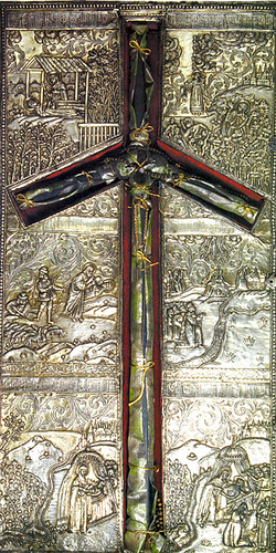 Grapevine cross, the symbol of Georgian Orthodox Christianity.